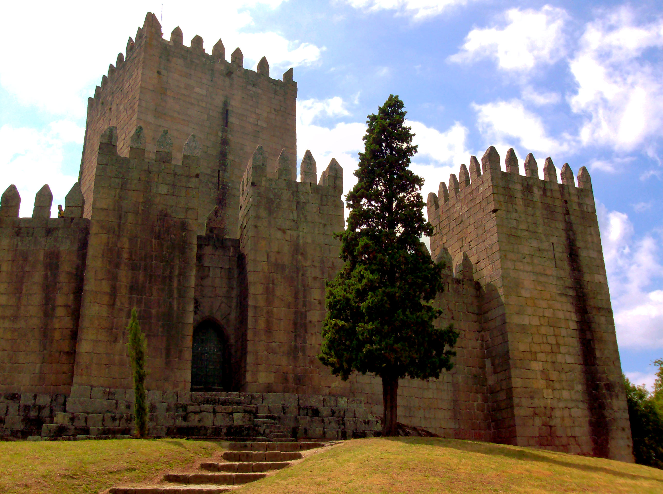 Guimarães Castle Front